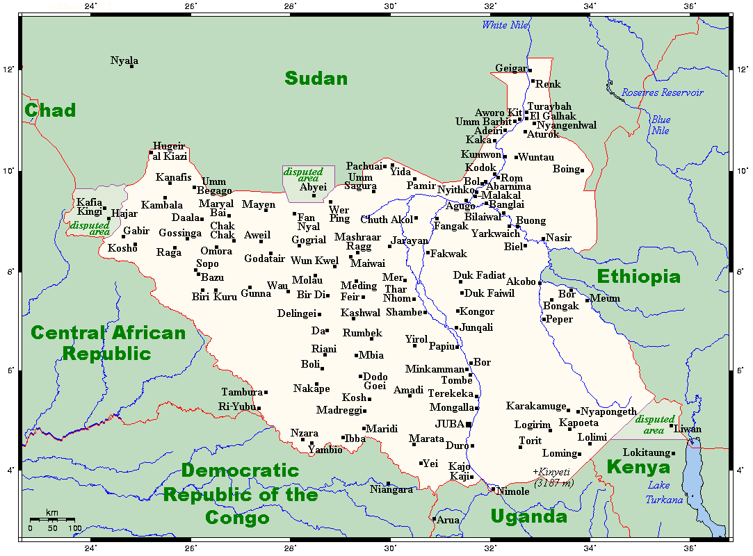 Map of Cities, towns and selected villages in South Sudan. See Geography of South Sudan